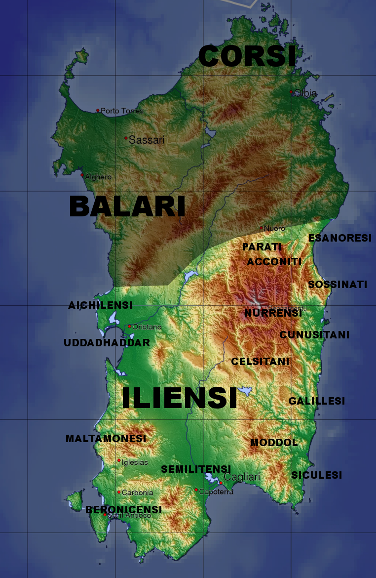 Iliensi Map